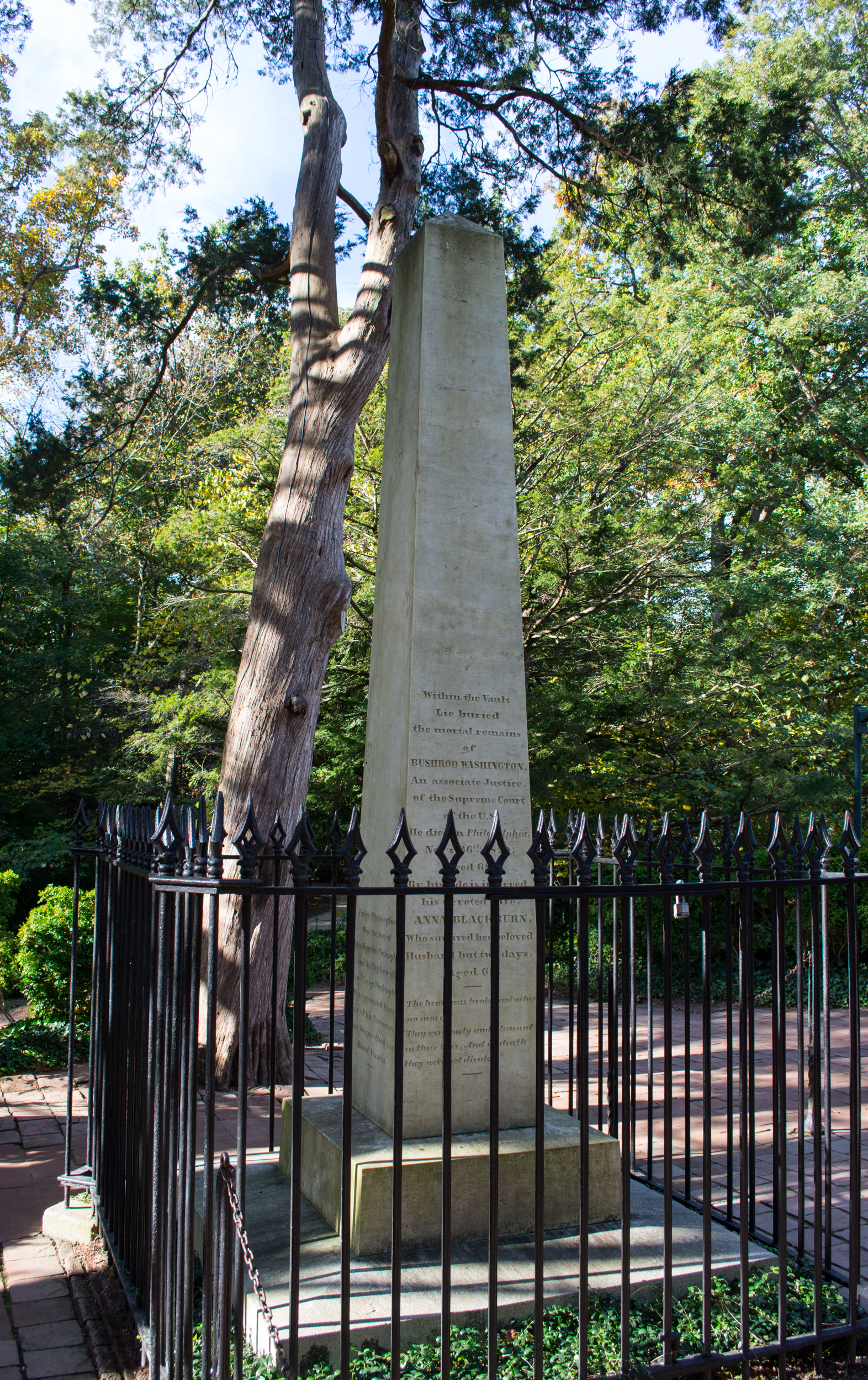 Front of the Bushrod Washington grave memorial, in front of the Washington Family Tomb at Mount Vernon, the home of George Washington, near Mount Vernon, Virginia, in the United States.